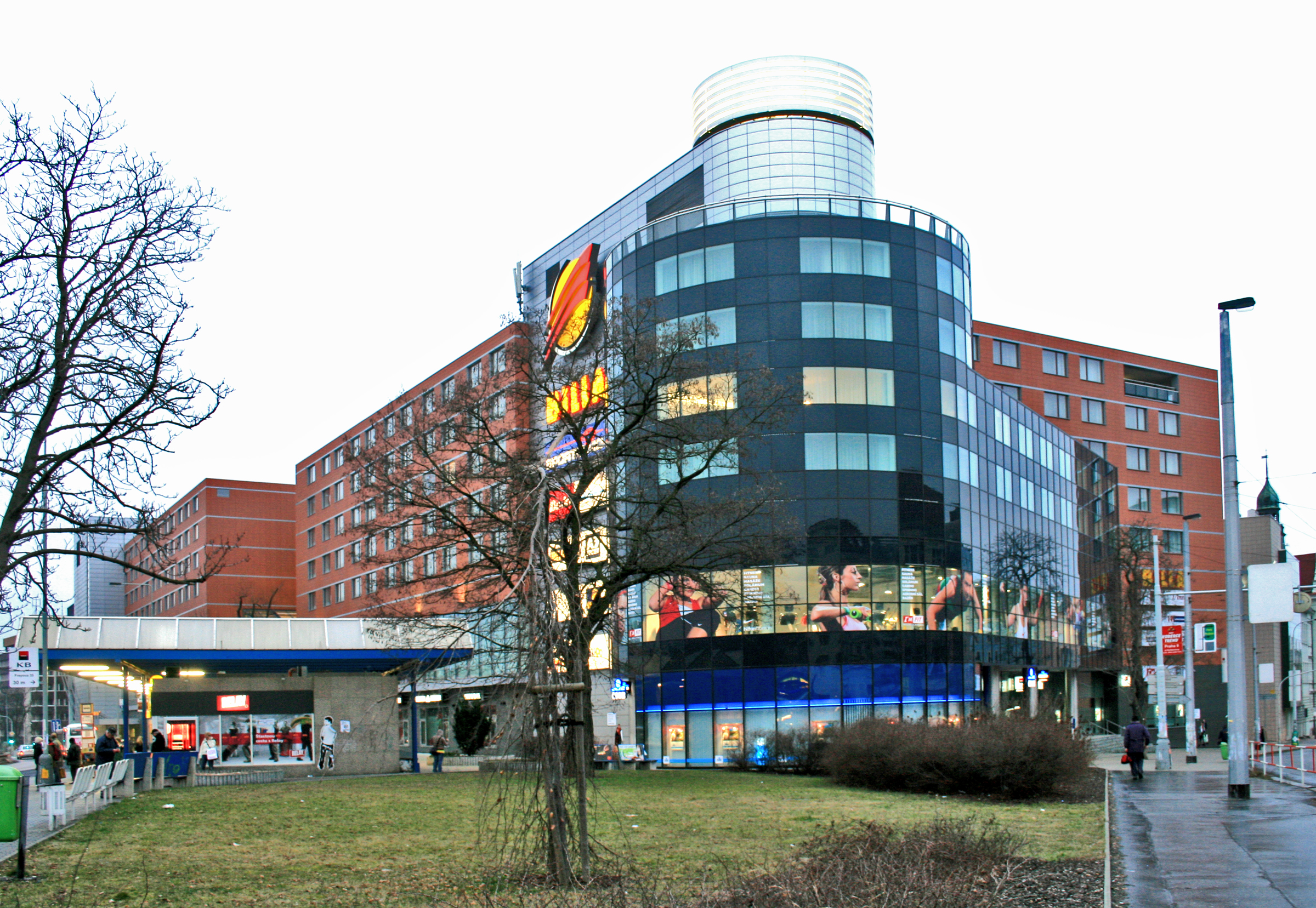 Prague hotel Clarion Congress Hotel Prague, Czech Republic